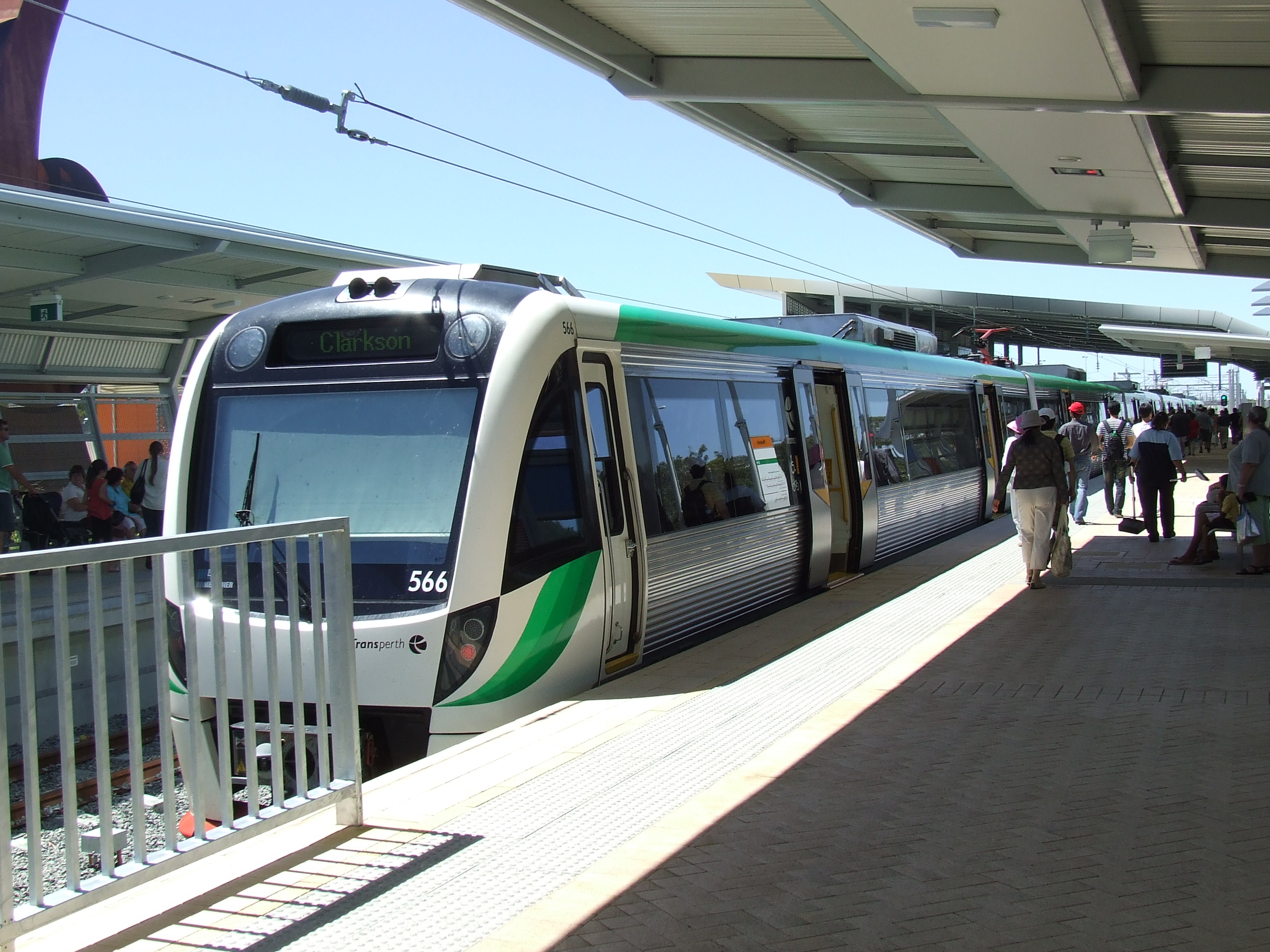 Mandurah Station on opening day, from platform 2 (on the east side)